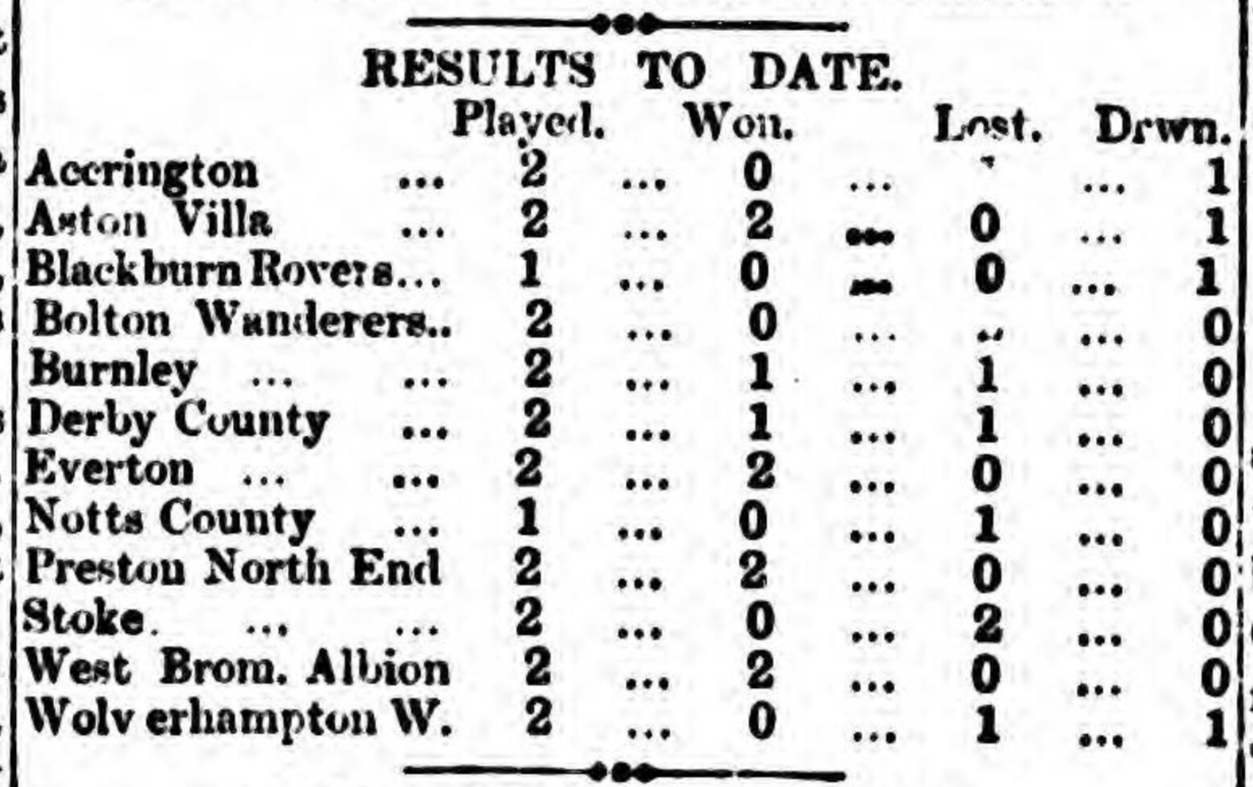 Early example of a football league table. Teams are listed in alphabetical order